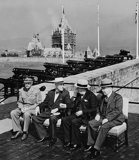 The Earl of Athlone, President Franklin D. Roosevelt, Rt. Hon. Winston Churchill, and Rt. Hon. Mackenzie King at the Quebec Conference